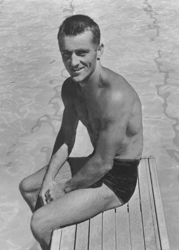 1969 Press Photo Diving coach Dick Kimball - nos17989